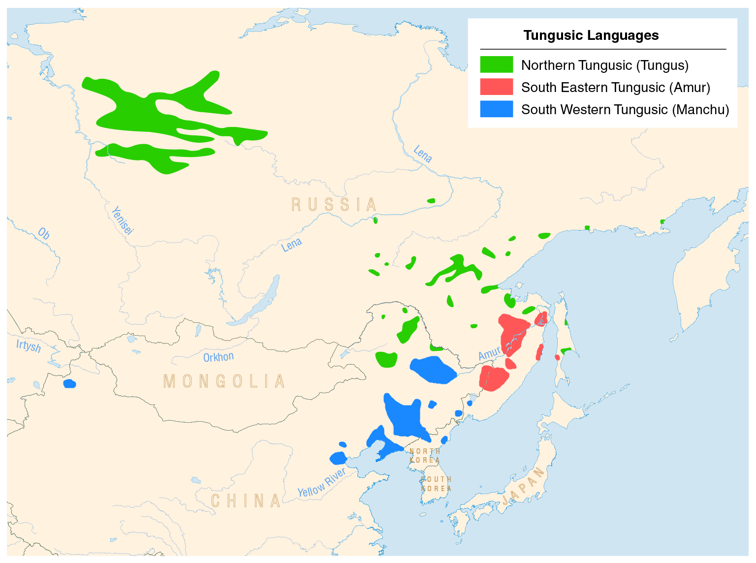 Linguistic maps of the Tungusic languages